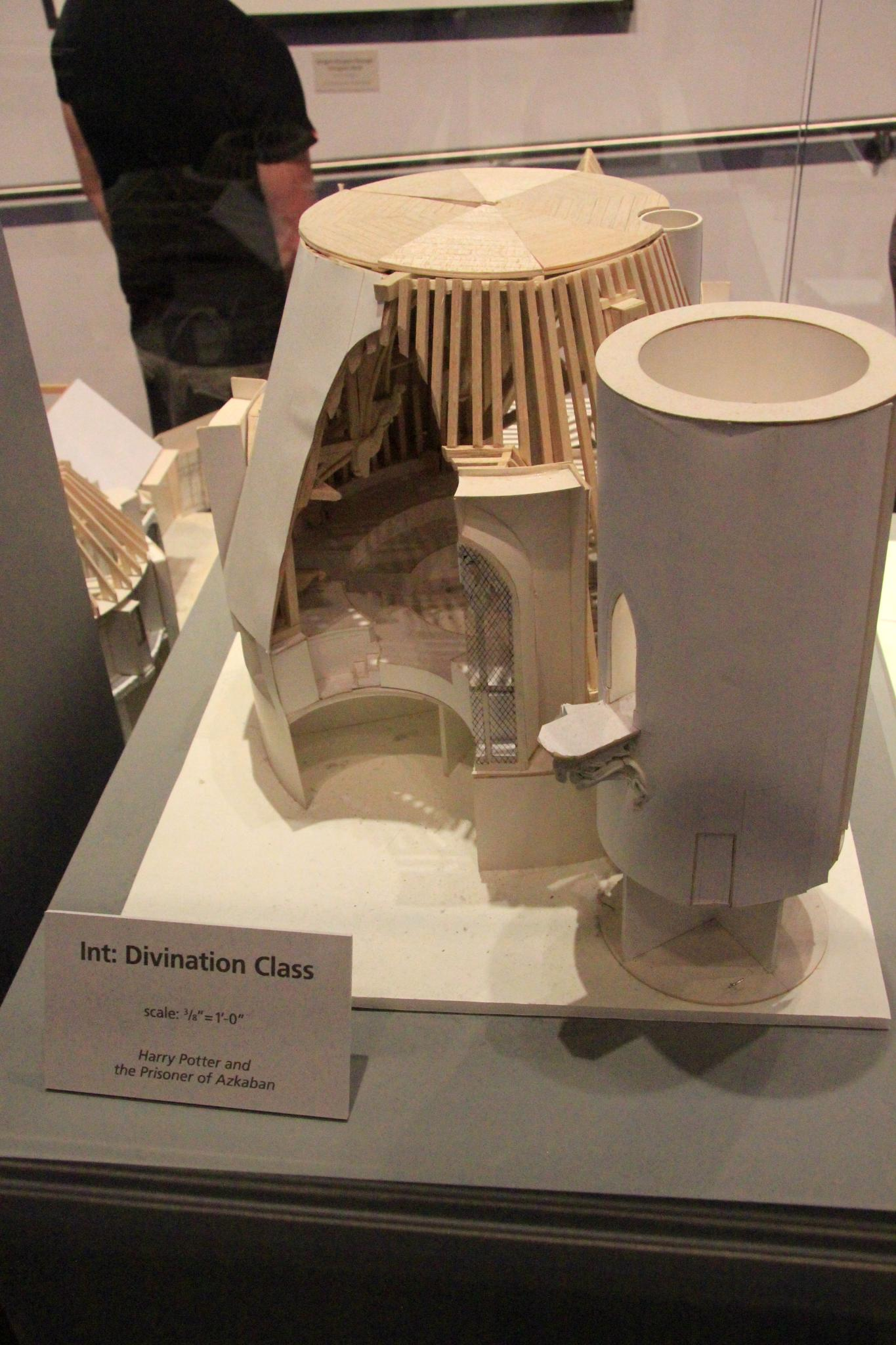 Warner Bros. Studio Tour London: The Making of Harry Potter.